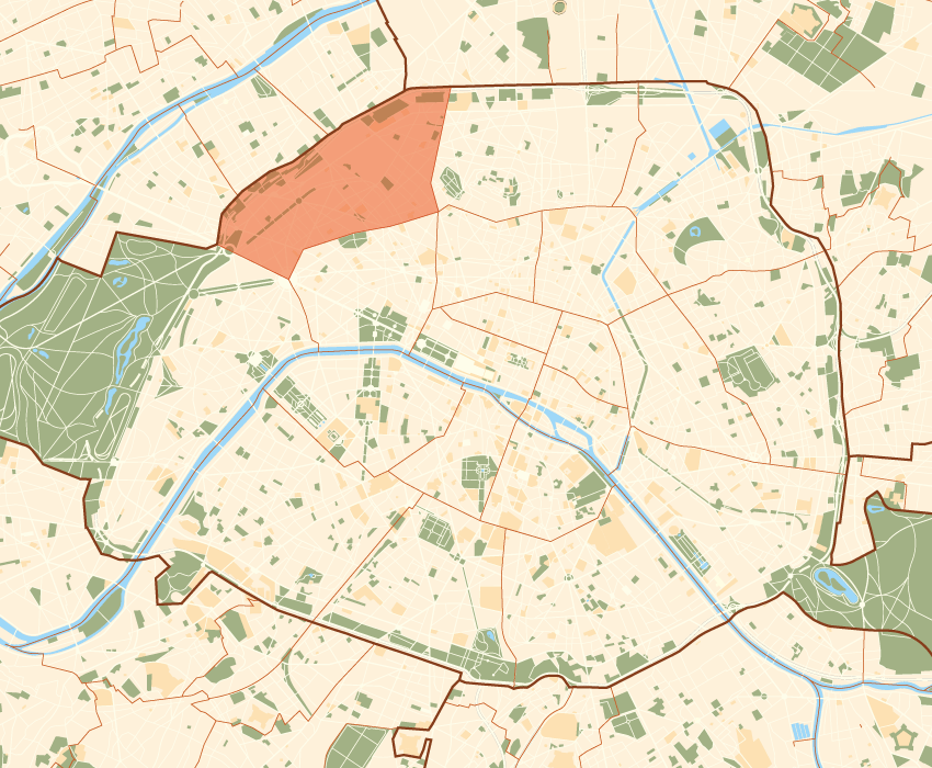 Plan by ThePromenader (own work)